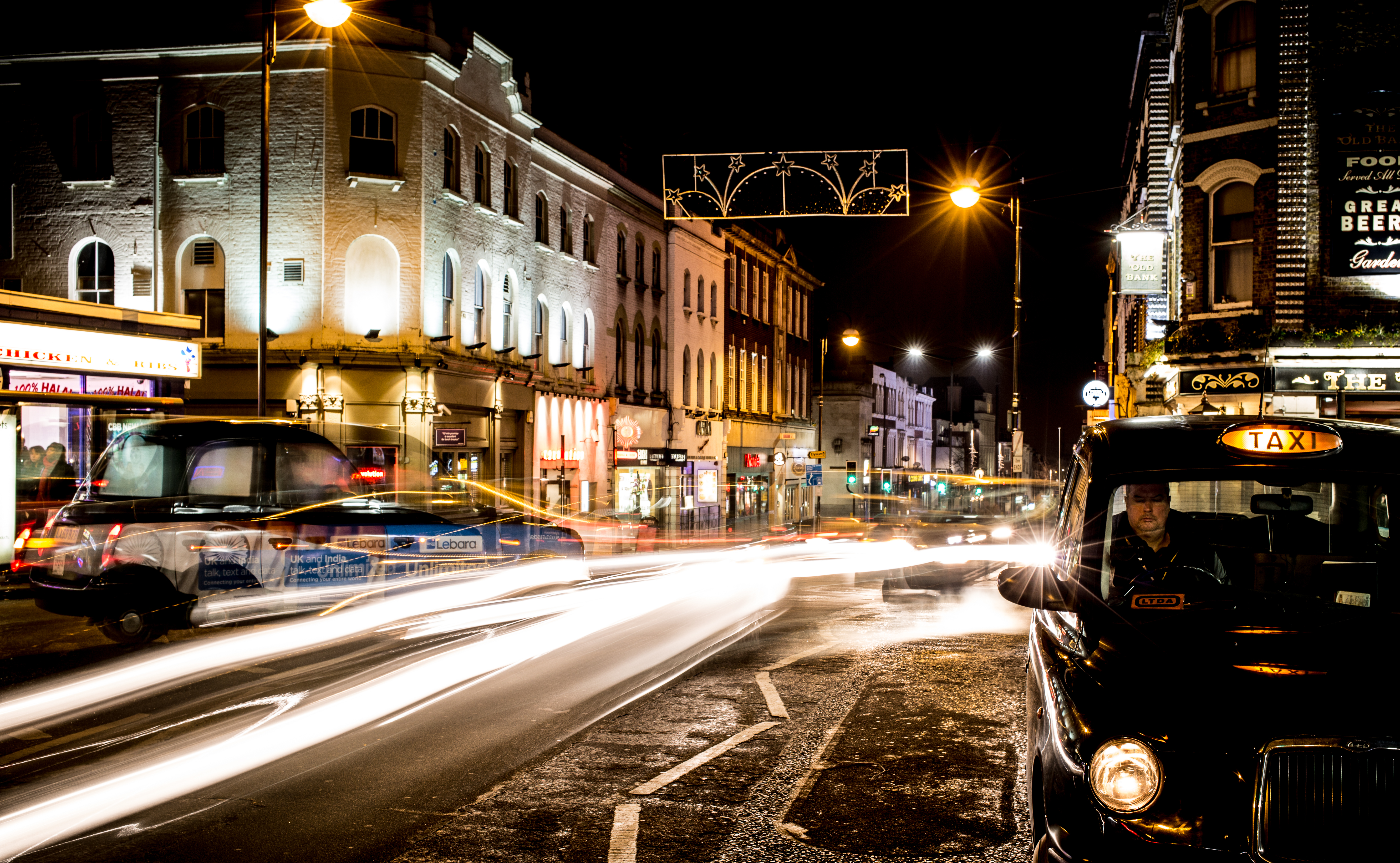 Long exposure of a London Cab at Sutton Surrey rail station.